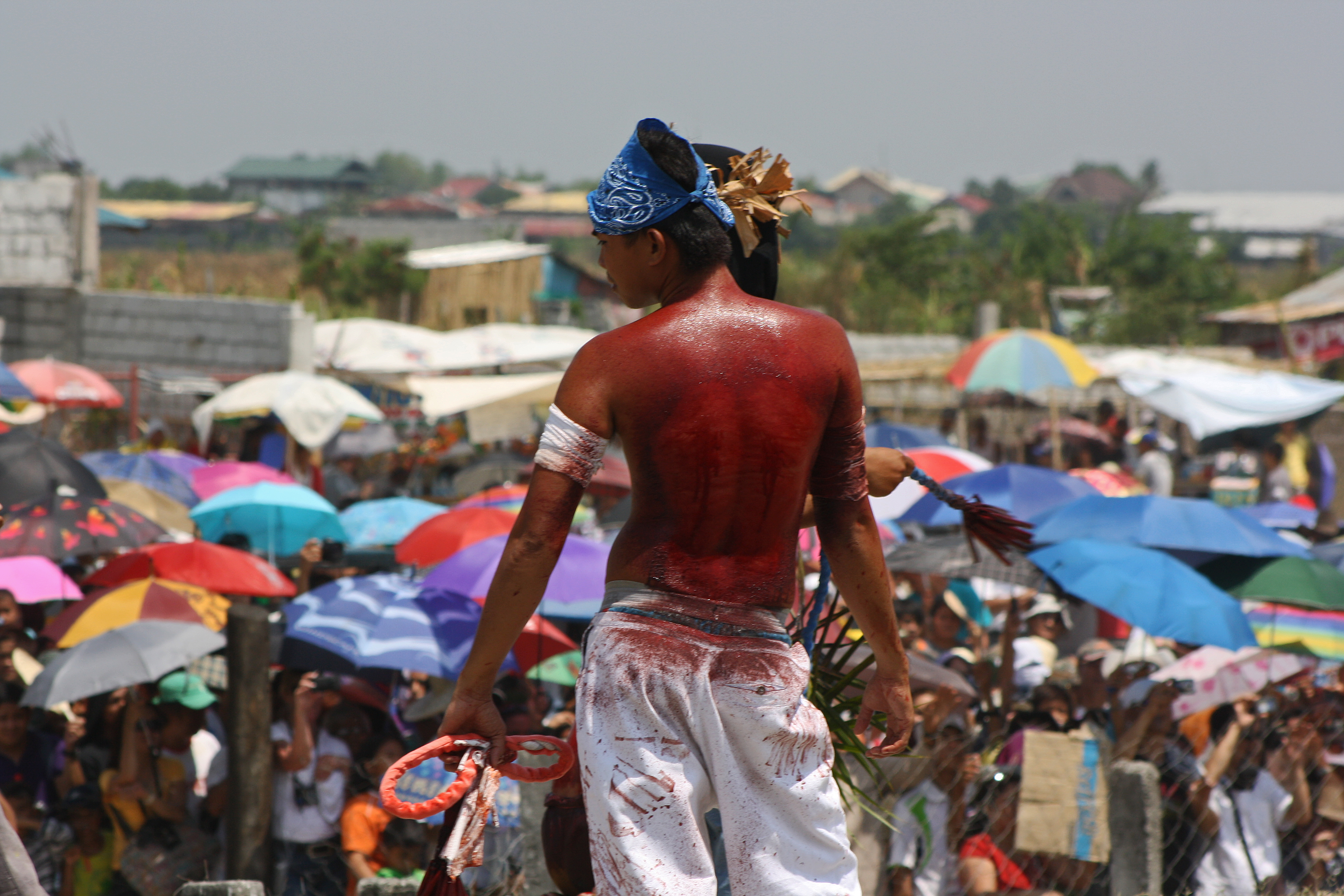 Good Friday observance in Barangay (barrio) San Pedro Cutud, in San Fernando, Pampanga, Philippines. During this annual tradition of faith of Kapampangan Catholic Devotees people remember the suffering and crucifixion of Jesus Christ. Although the modern Catholic church now discourages this act of hurting themselves, many penitents called "magdarame" carry wooden crosses, crawl on rough pavement, and slash their backs before whipping themselves to draw blood (pictured). This is done to ask for forgiveness of sins, to fulfill vows (panata), or to express gratitude for favors granted.